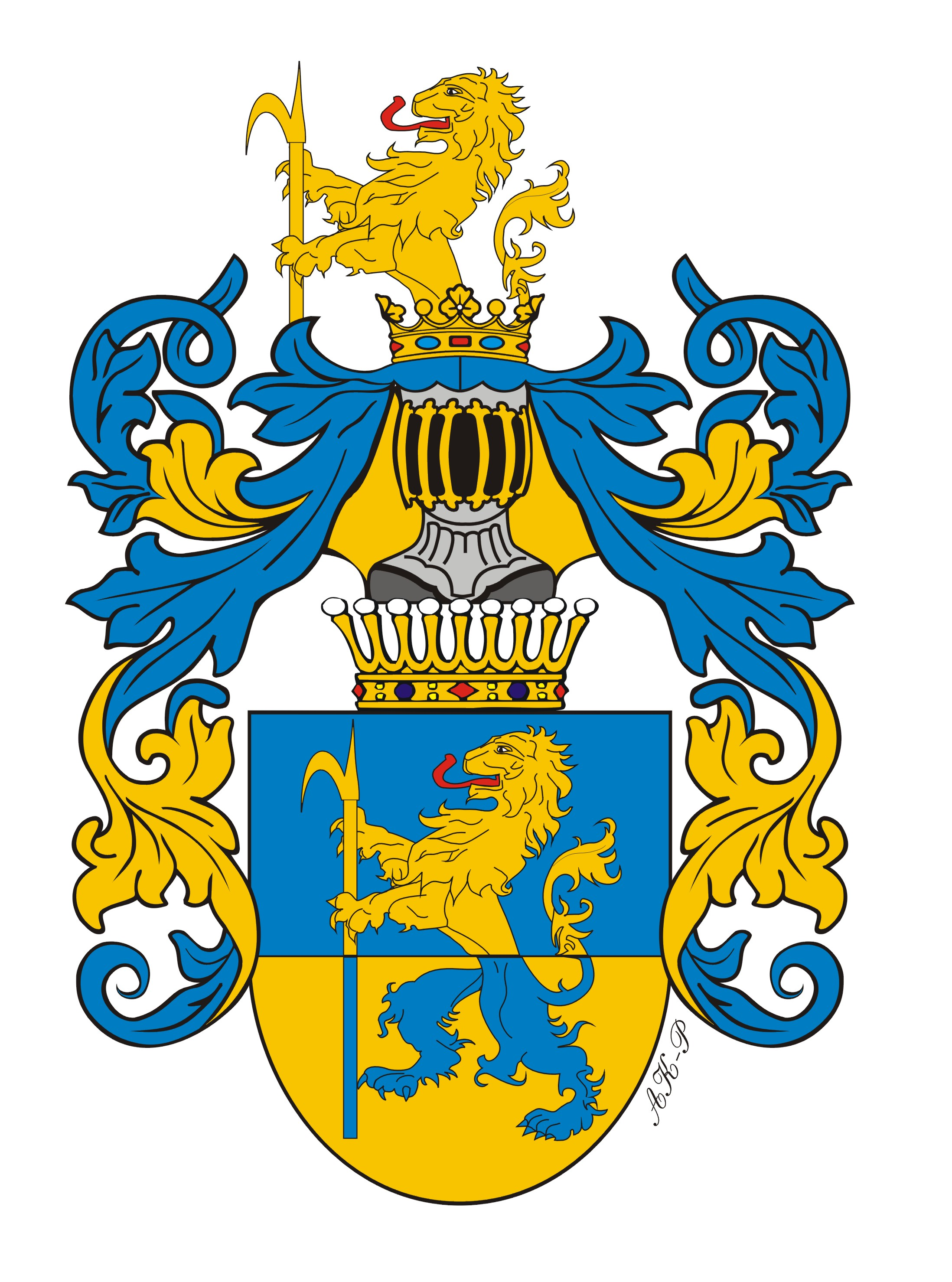 Arms of Counts Hauke-Bosak (Russian Empire)